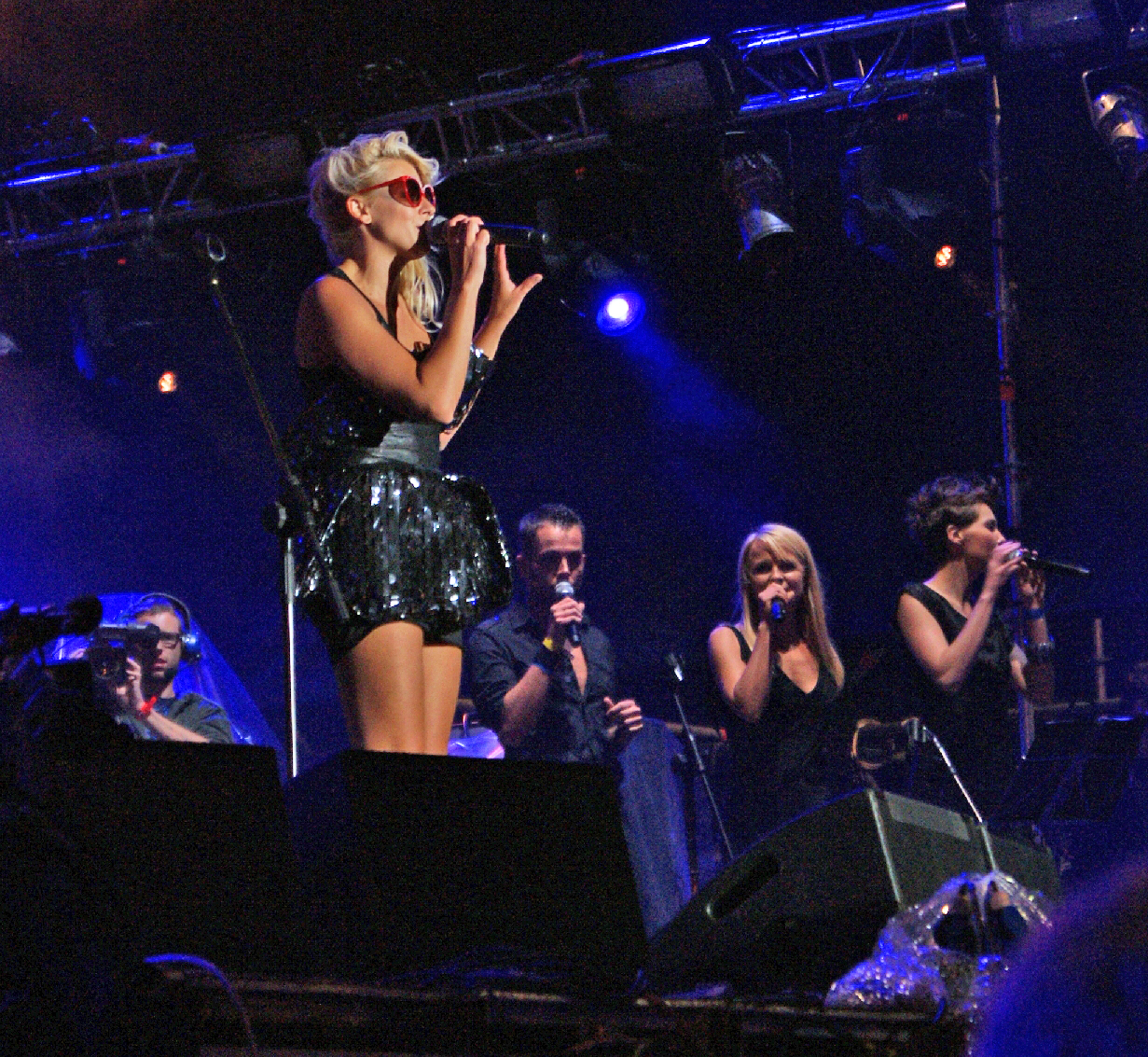 Orange Warsaw Festival 2009, Pl. Defilad, Warsaw, Poland Marysia Sadowska